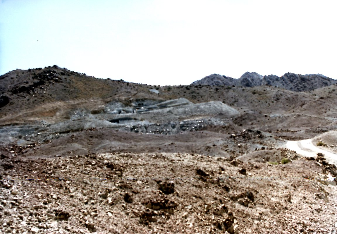 Khanozai Deposits